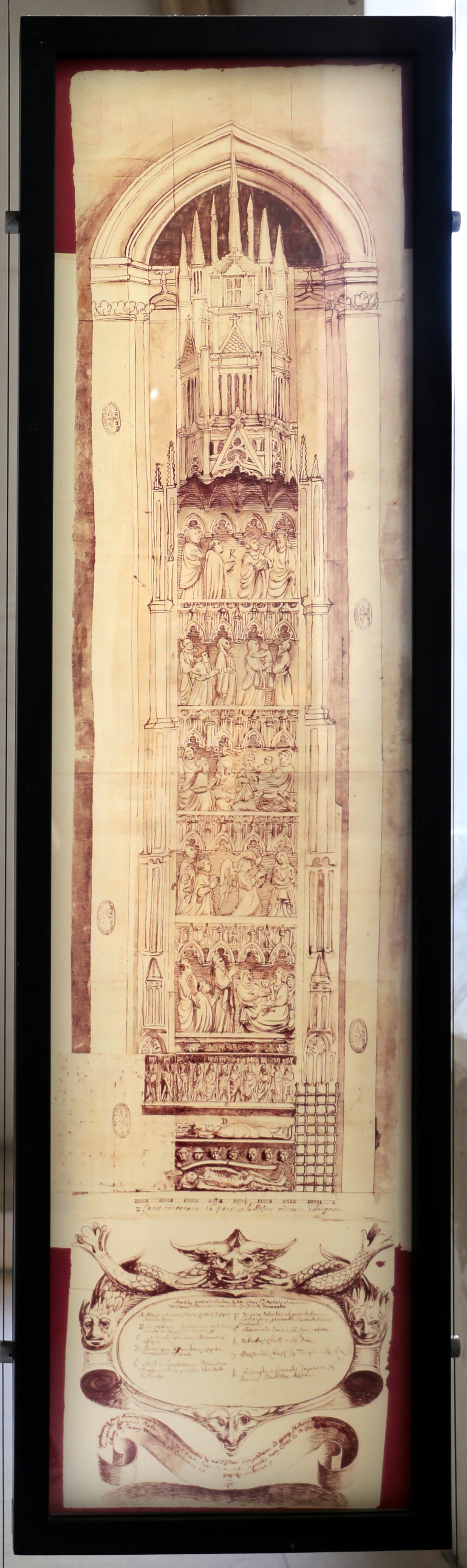 Tomb of Cardinal Jean de La Grange